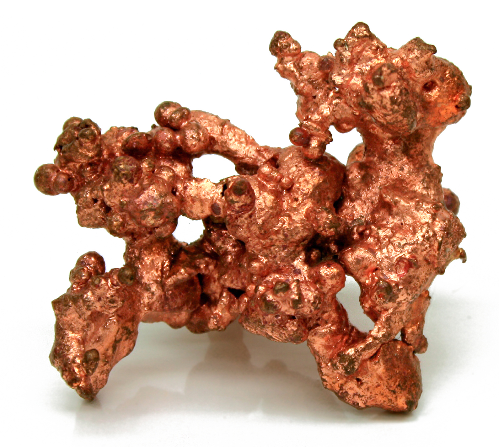 Macro of native copper about 1 ½ inches (4 cm) in size.